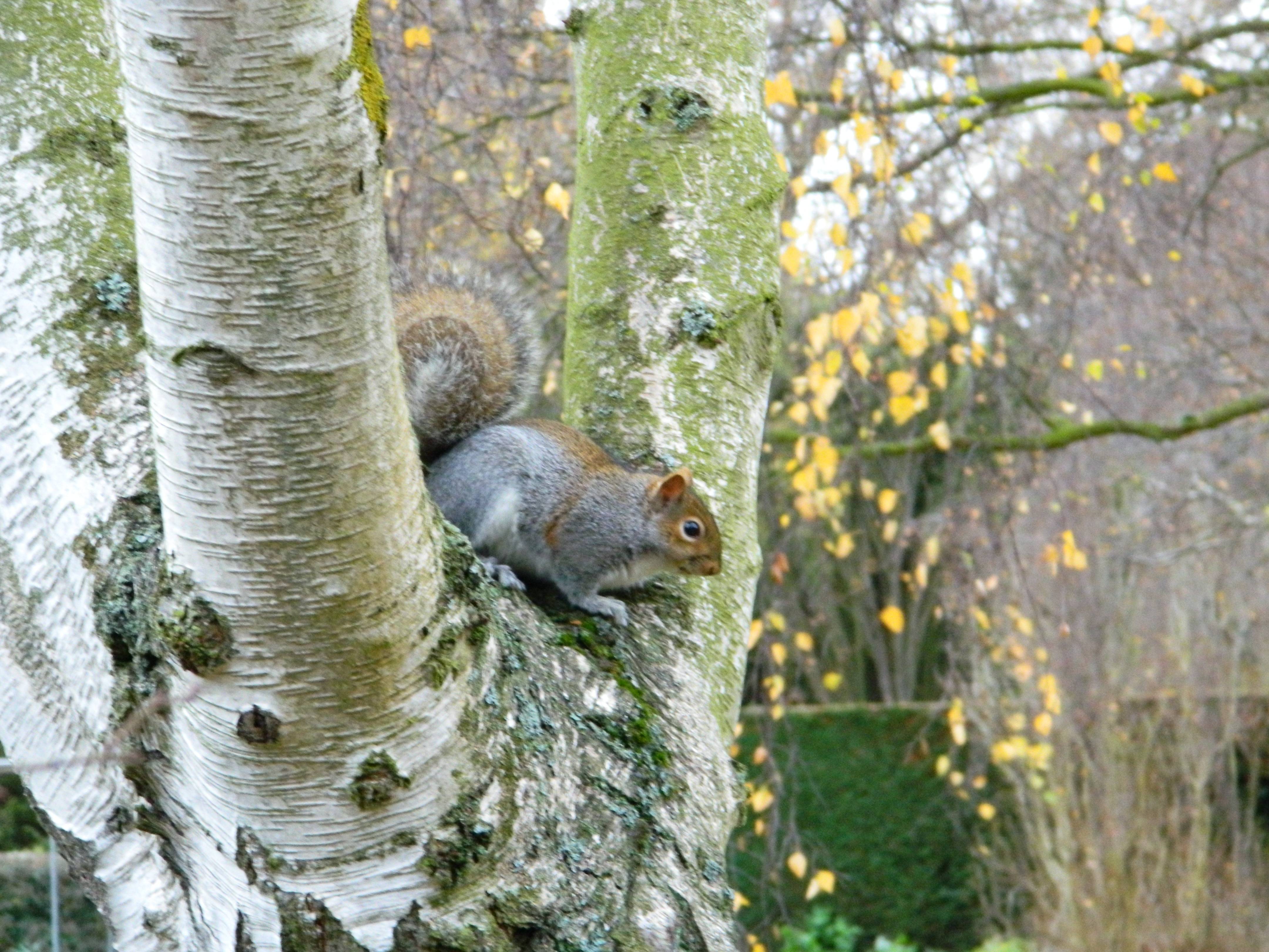 A squirrel prepares to jump to the ground.